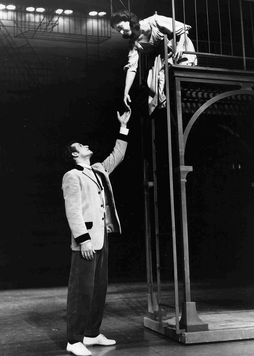 Photo of the balcony scene from West Side Story. Pictured are Larry Kert as Tony and Carol Lawrence as Maria.